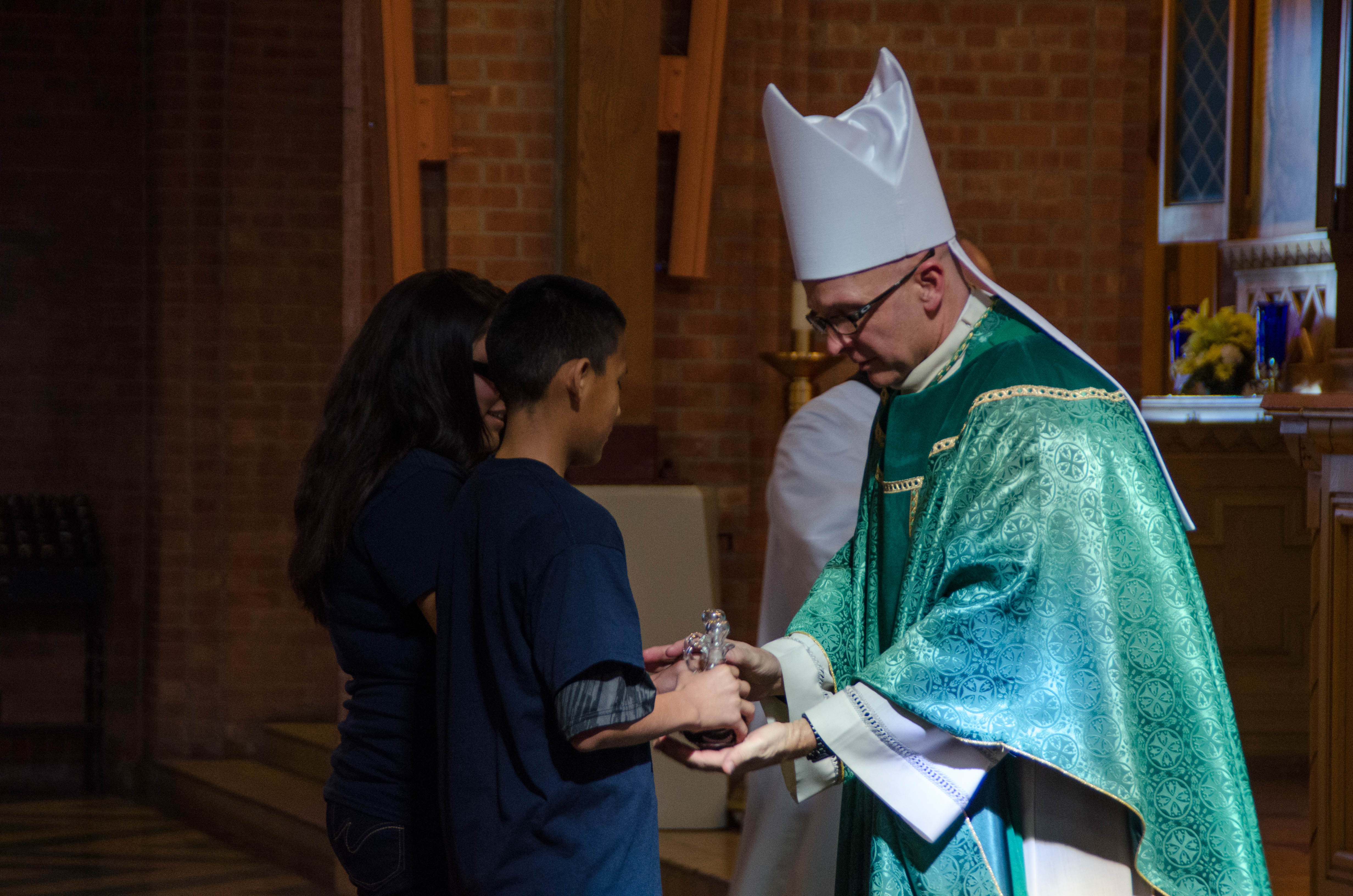 Schools from McKinley and Cibola Counties in NM gathered at the Cathedral for a Mass celebrated by Bishop James Wall.